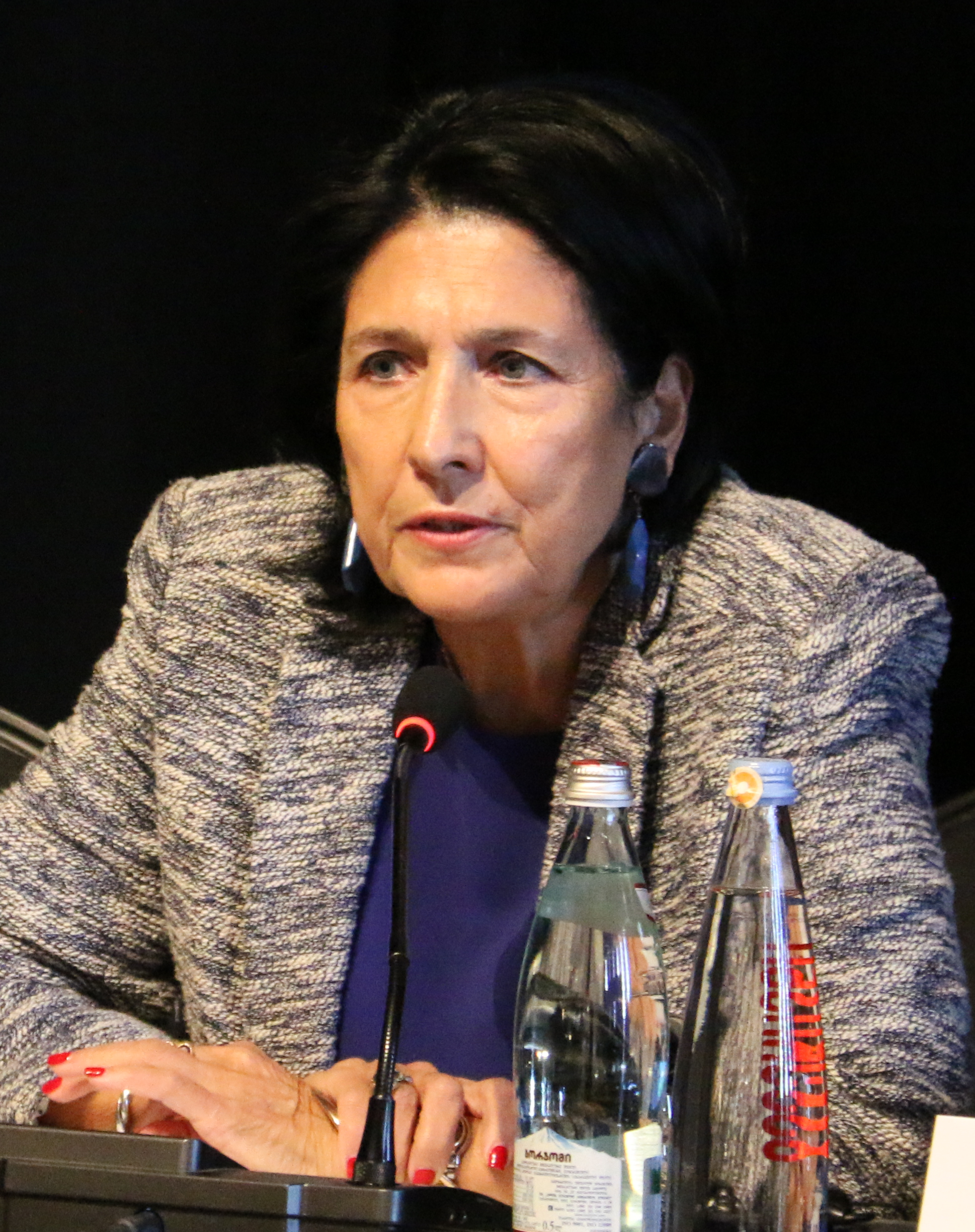 OSCE PA Election Observation Mission to Georgia, 26-29 October 2018